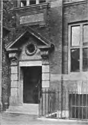 Black-and-white photograph of the entryway to the Johnston Laboratories at the University of Liverpool, Liverpool, England, in the United Kingdom. This photograph dates from the formal opening of the laboratories in 1903.